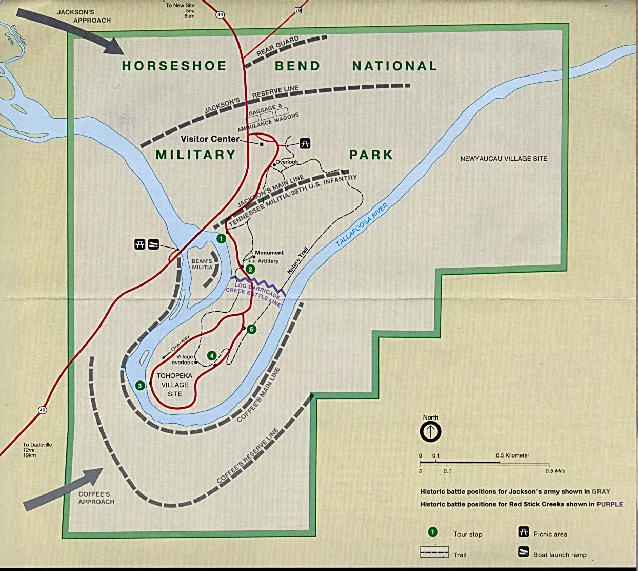 This image is held in the PCL Map Collection at the University of Texas Libraries, The University of Texas at Austin. (Copyrighted material in this collection is clearly marked.) The map shows the Horseshoe Bend National Military Park and is annotated with the historical battle positions of Jackson's Army and the Creek Red Sticks.